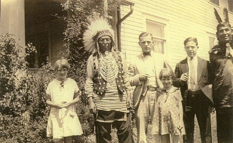 Chief Flying Hawk and Thunder Bull, his interpreter, at The Wigwam, Du Bois, PA, 1929. Other information No.